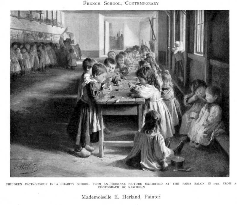 1905 print after page of Women painters of the world, from the time of Caterina Vigri, 1413-1463, to Rosa Bonheur and the present day, by Walter Shaw Sparrow, The Art and Life Library, Hodder & Stoughton, 27 Paternoster Row, London